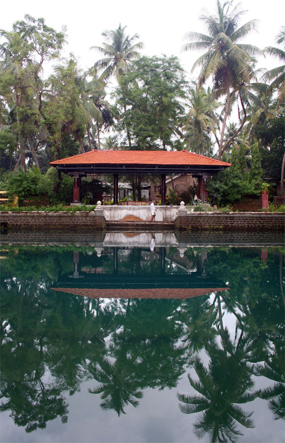 Sarovar at Shirali Math and stage under construction july 2008